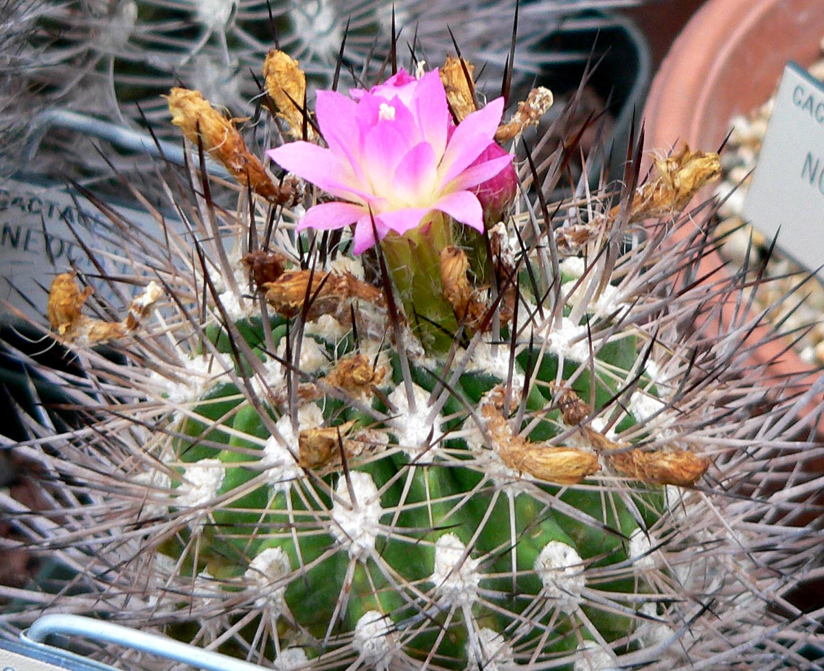 Photo of Neoporteria nigrihorrida at the University of California Botanical Garden